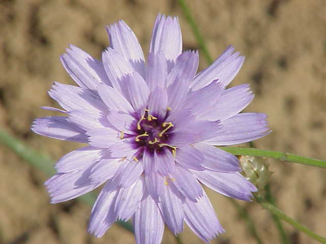 Species: Catananche caerulea Family: Compositae Image No. 4